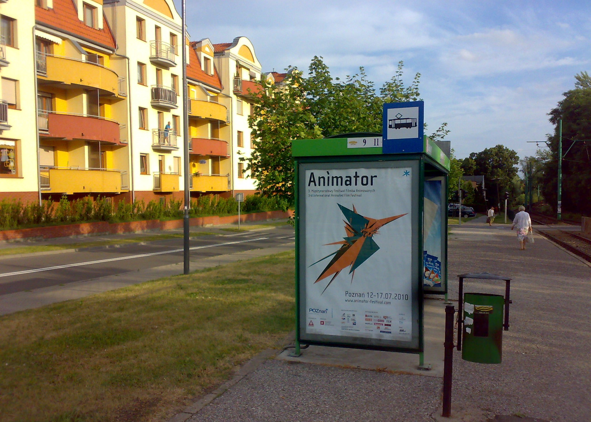 Poznań, Winiary District. Św. Leonarda stop.